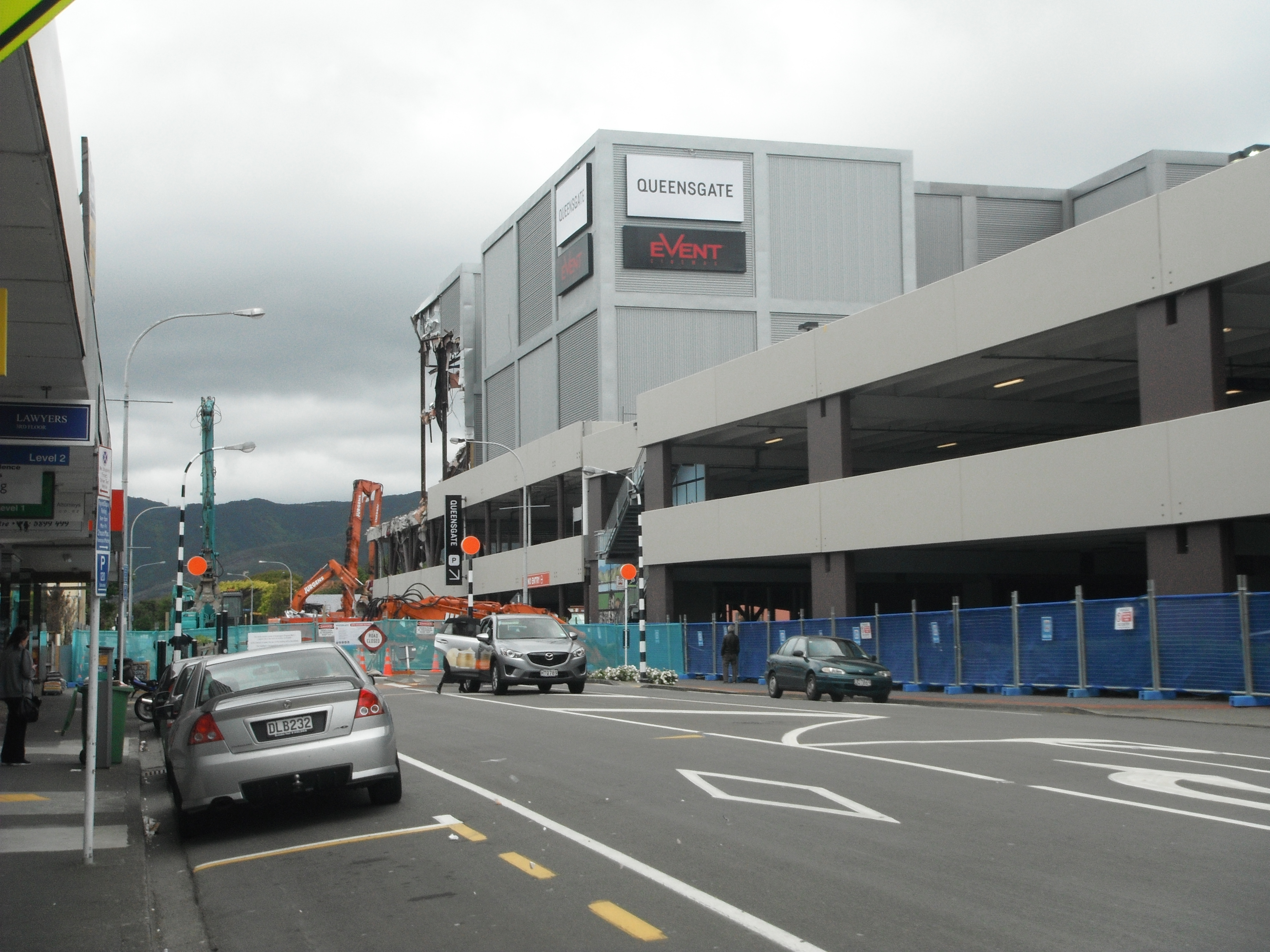 The cinema and part of the parking building at the northeast corner of Queensgate Shopping Centre in Lower Hutt, New Zealand under demolition. The building suffered structural damage in the 14 November 2016 Kaikoura earthquake and was deemed structurally unsound. To the right of the image, it appears the parking building has bowed vertically, although this may have been present before the earthquake.